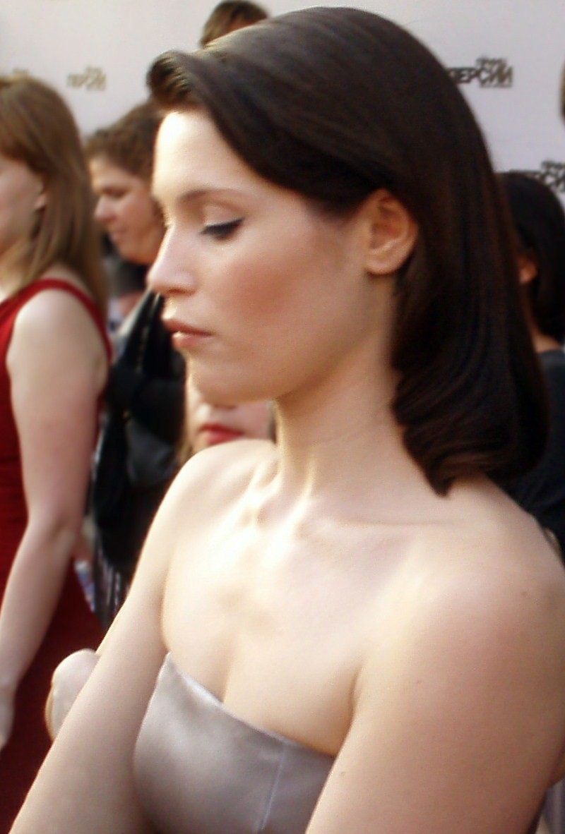 Gemma Arterton, actress at the Prince Of Persia premiere in Moscow (May 11, 2010). She went past us very fast and didn't sign many posters.